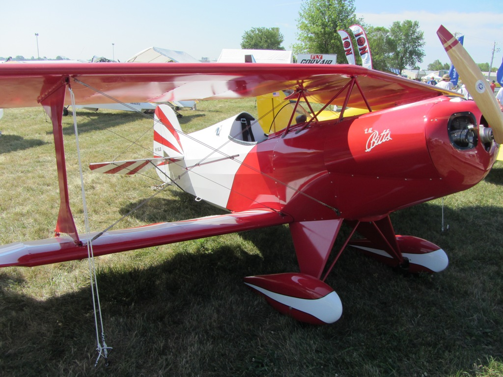 Raceair LilBitts